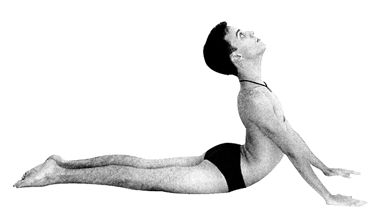 Rája Bhujangásana